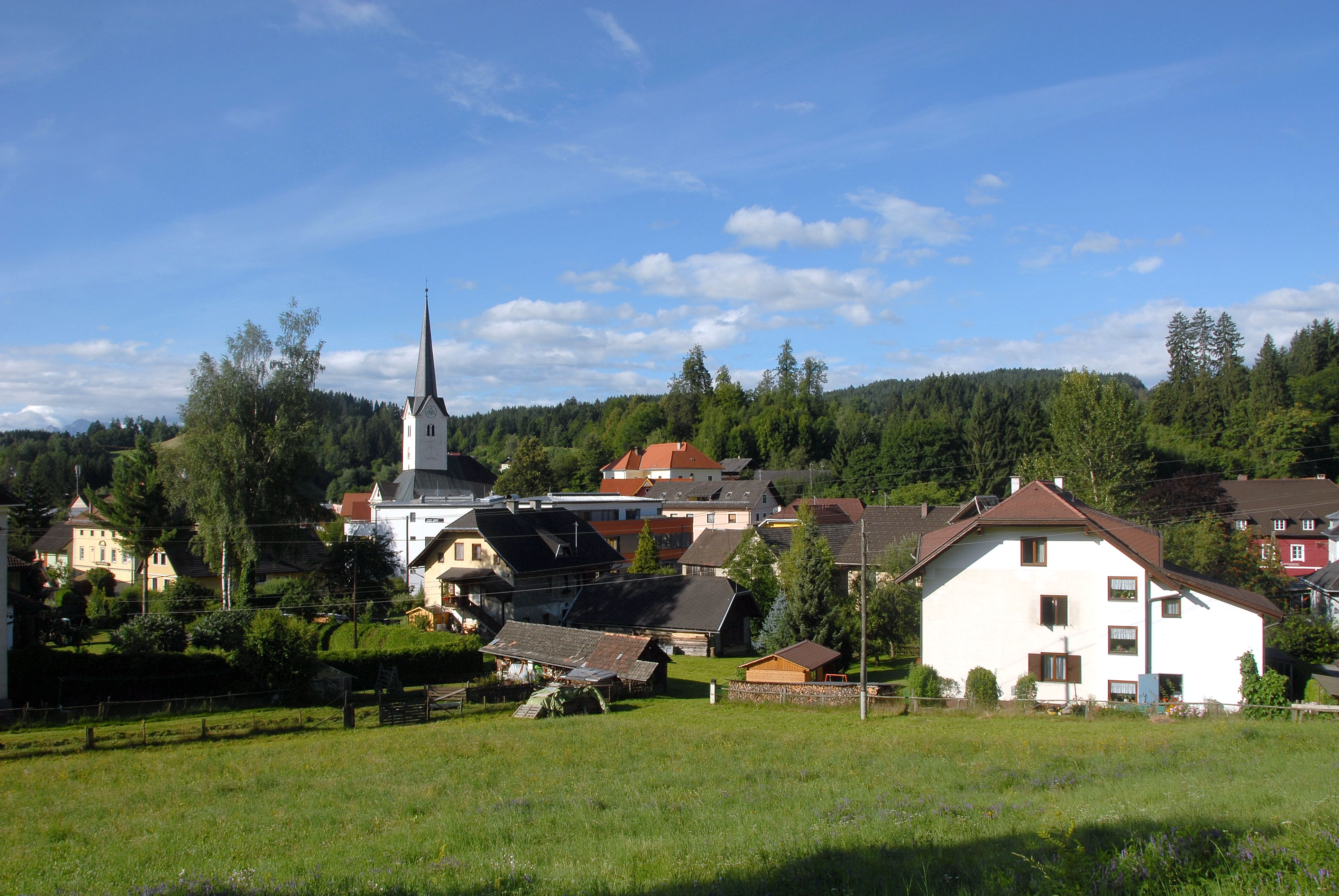 View at Moosburg, market town Moosburg, district Klagenfurt Land, Carinthia / Austria / EU